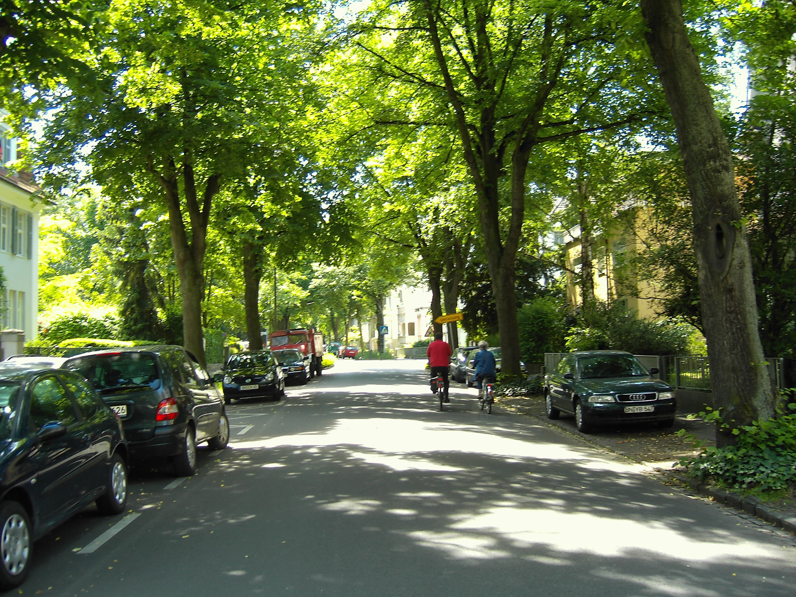 The street Plittersdorfer Straße in the Bonner municipal district Bad Godesberg.